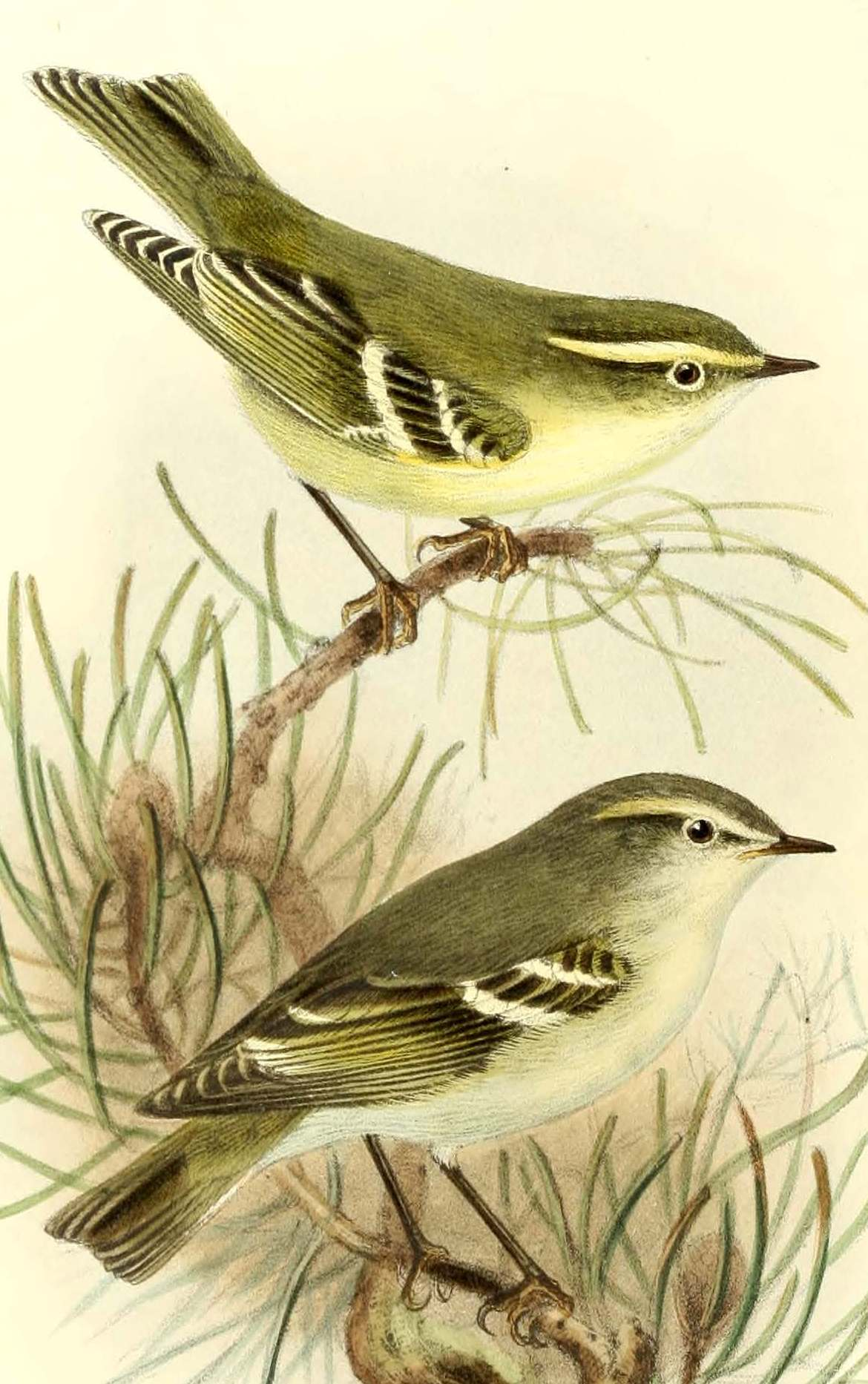 Phylloscopus inornatus (Reguloides Superciliosus). Dresser